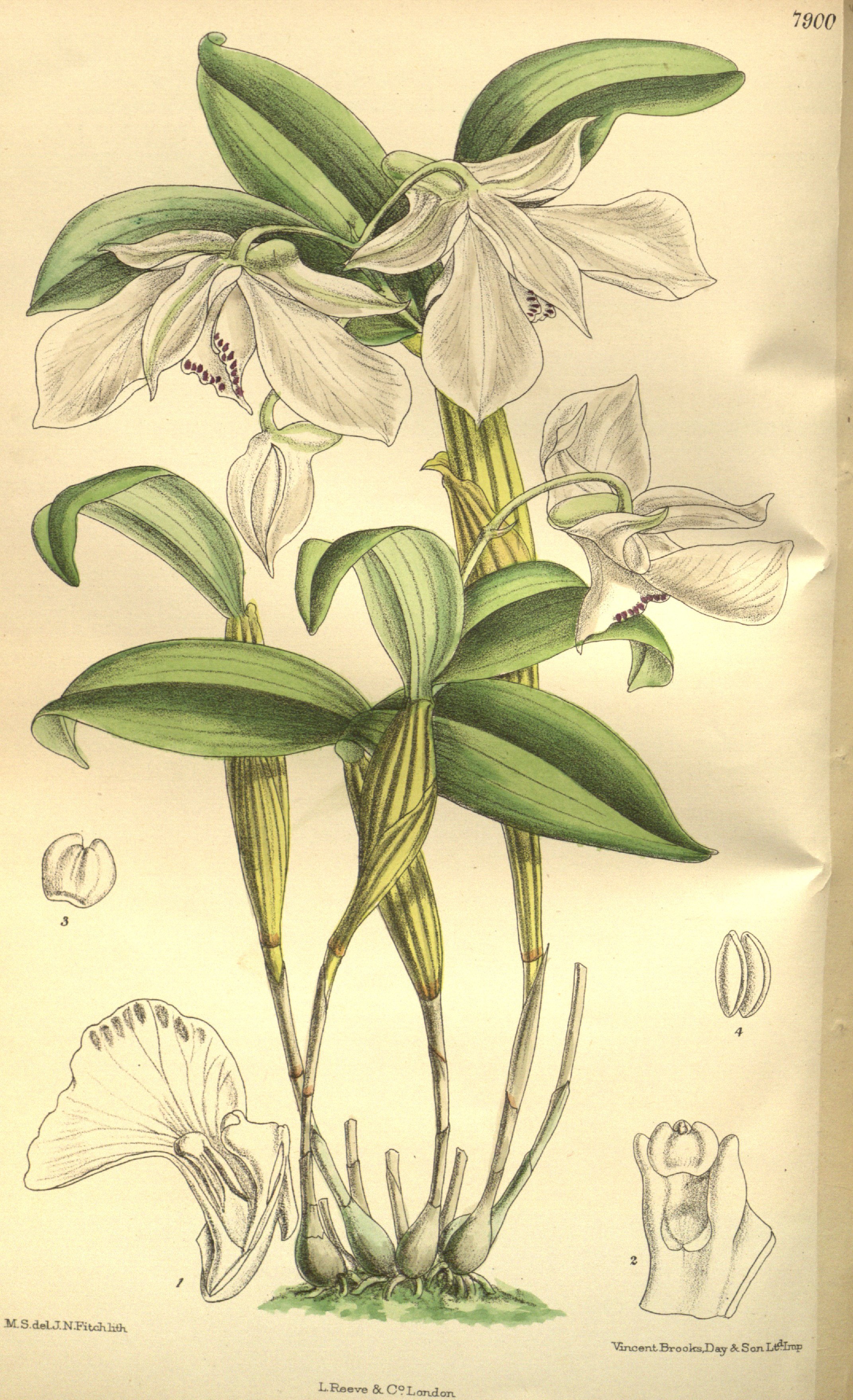 Illustration of Dendrobium rhodostictum (as syn. Dendrobium madonnae)